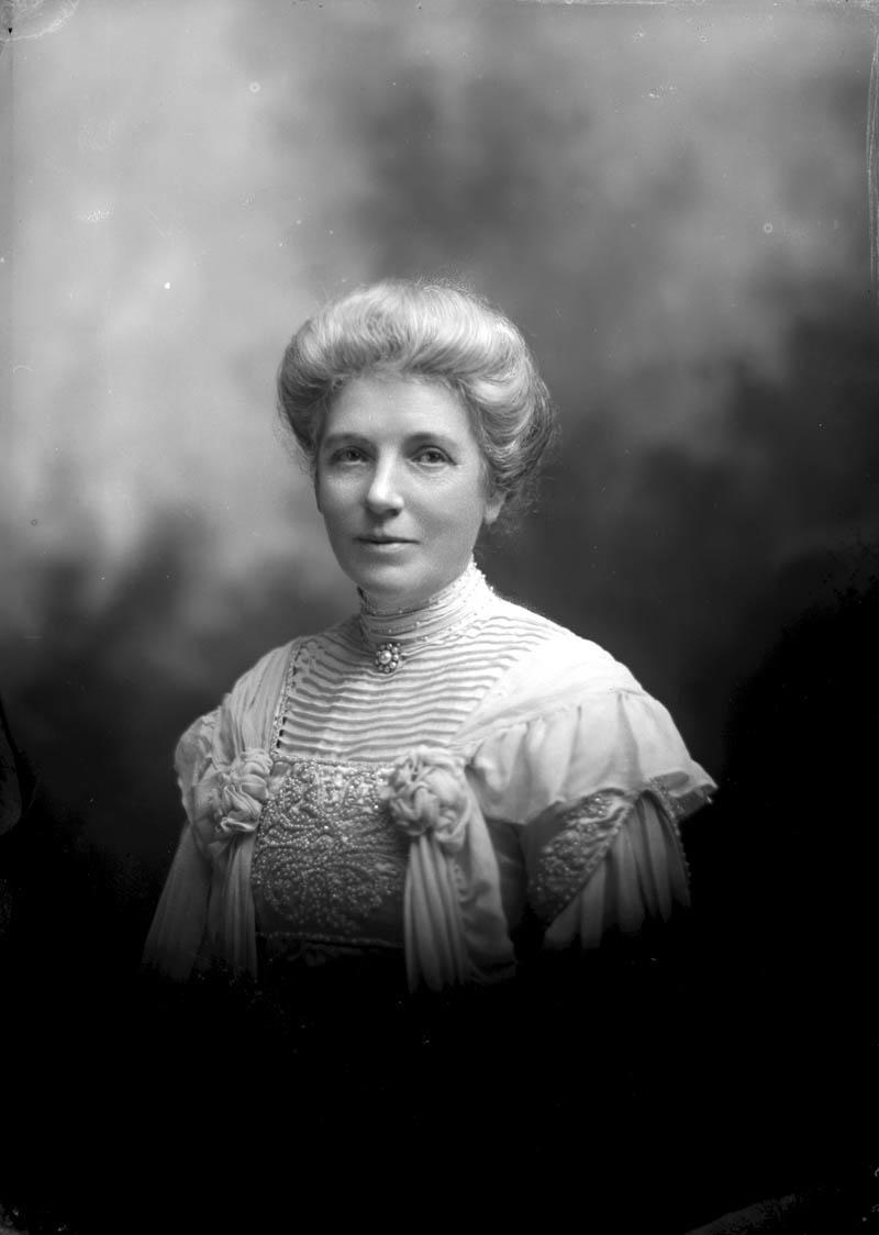 Social reformer, suffragist, writer, and first president of National Council of Woman in New Zealand